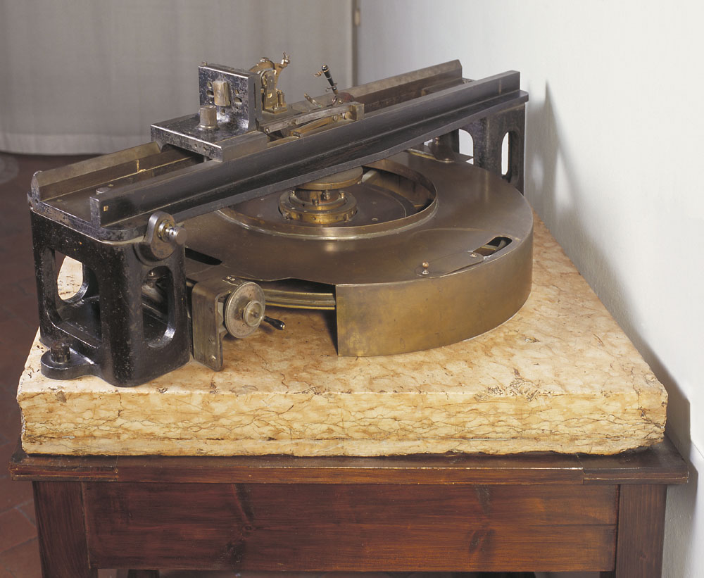 AuthorUnknownDescription